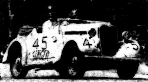 The Singer Bantam of Tom Brady contesting the 1939 Australian Stock Car Road Championship, which it won.